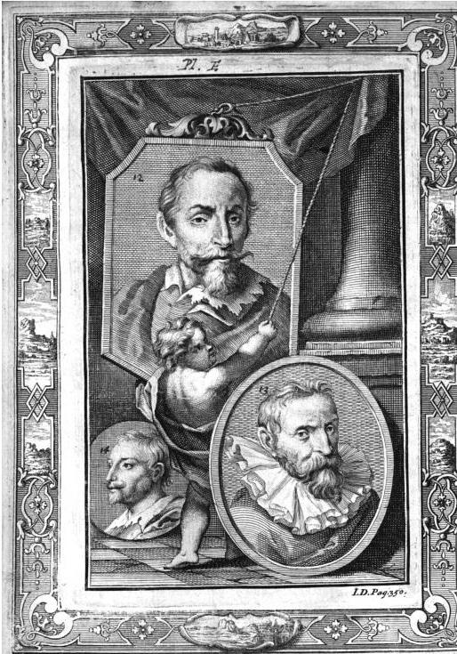 Engraving from the Levensbeschryvingen konstschilders, a comprehensive dictionary of art by Jacob Campo Weyerman, published in 1729 and illustrated with engravings copied from Arnold Houbraken's Schouburgh VI Plate E - Frans Snijders- Jan Breughel I - Cornelis Schut